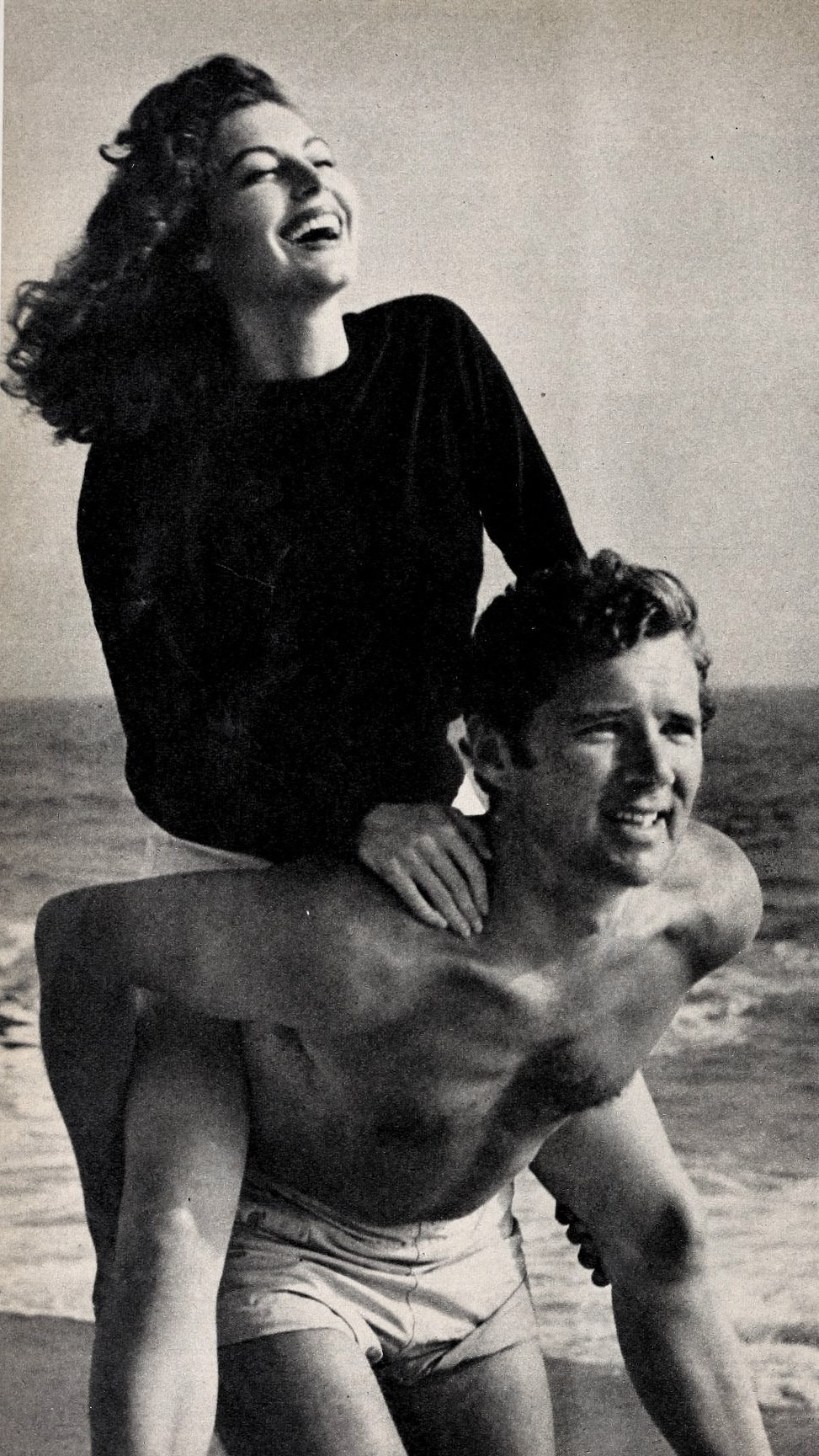 Ava Gardner and Howard Duff by Don Ornitz, 1948